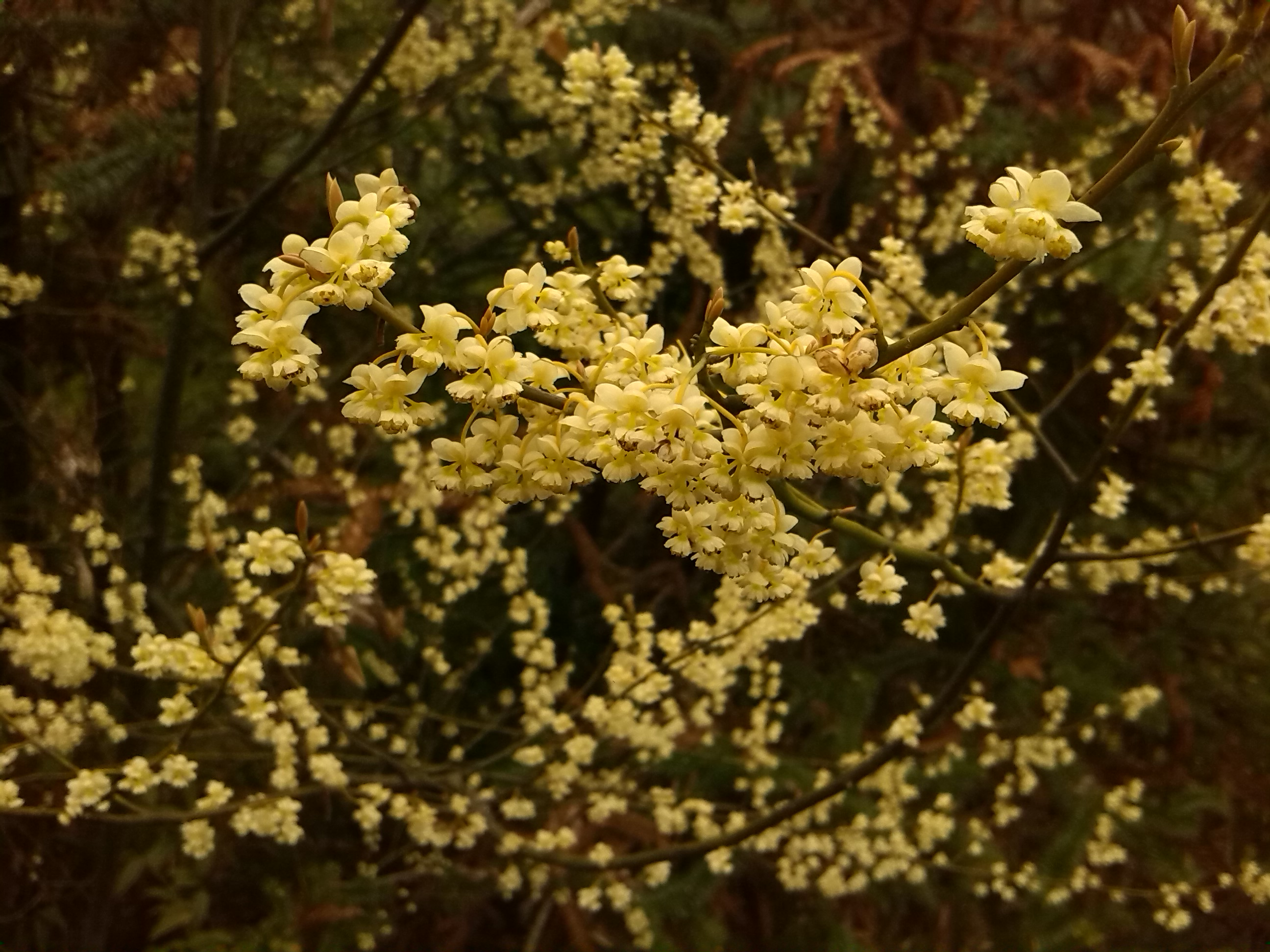 Litsea cubeba, Wukeng Township, Qingtian County, Zhejiang Province